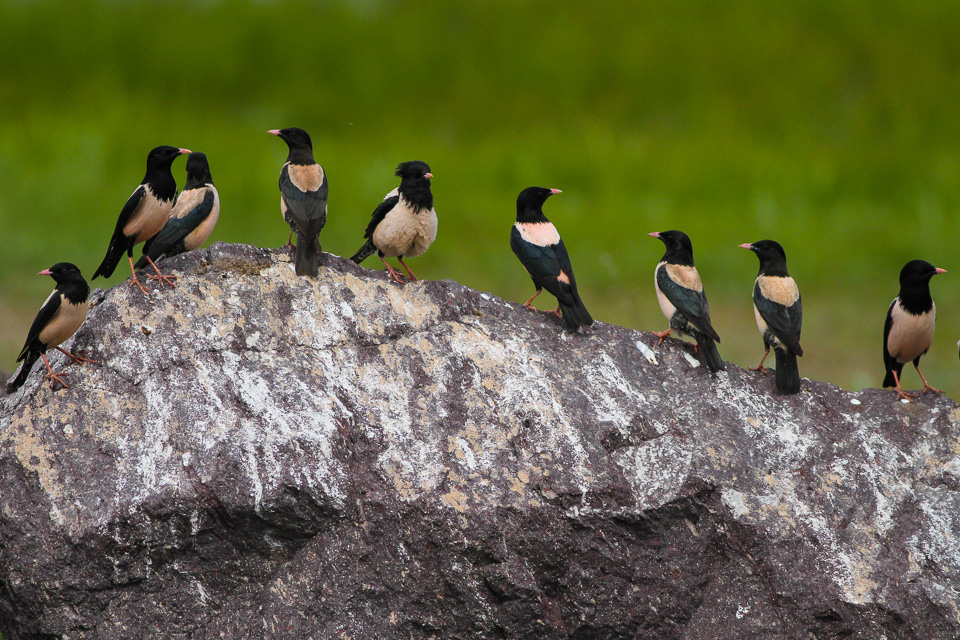 Rosy Starling Pastor roseus, between Almaty and Sorbaluk Lake, Kazakhstan